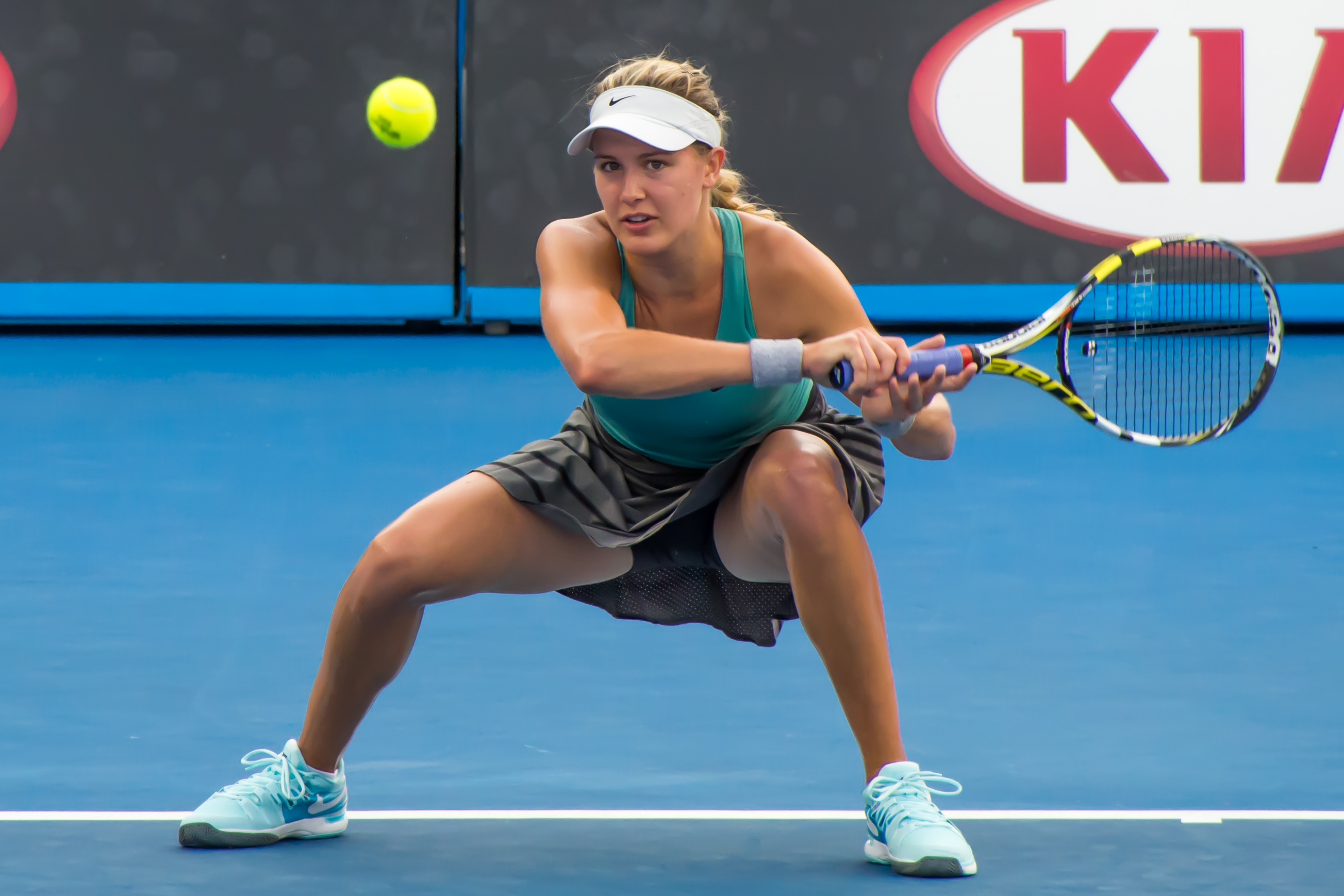 Eugenie Bouchard (CAN) [30] during her 2nd round straight-sets win to Virginie Razzano (FRA) at the 2014 Australian Open on Show Court 2.